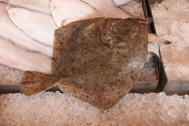 A turbot on a market